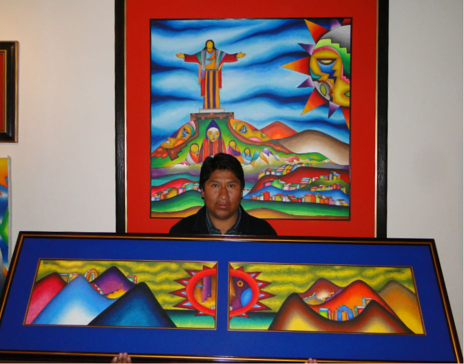 Photograph of the bolivian painter Roberto Mamani Mamani